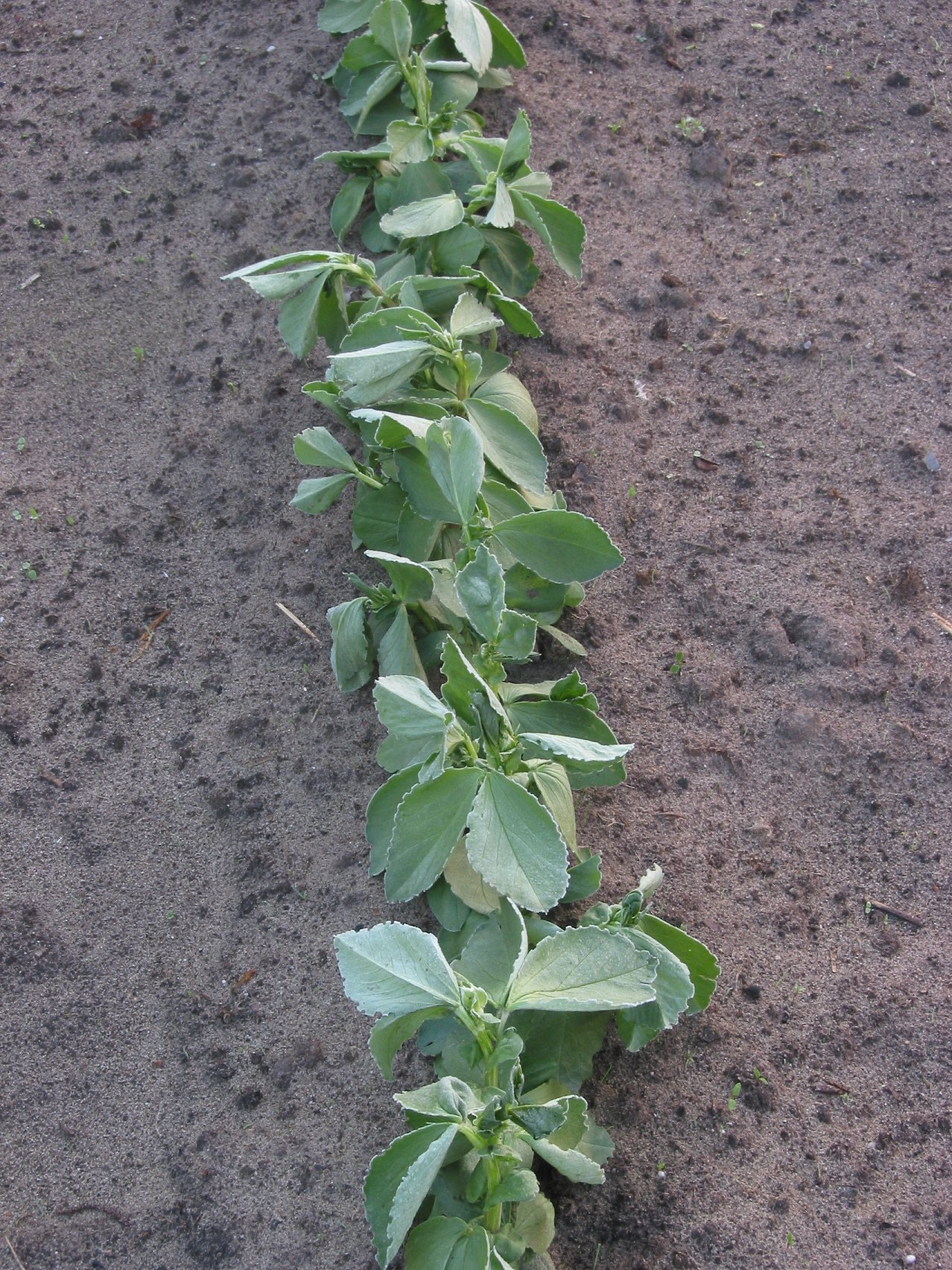 frosted Vicia faba (Tuinboon) tijdens nachtvorst